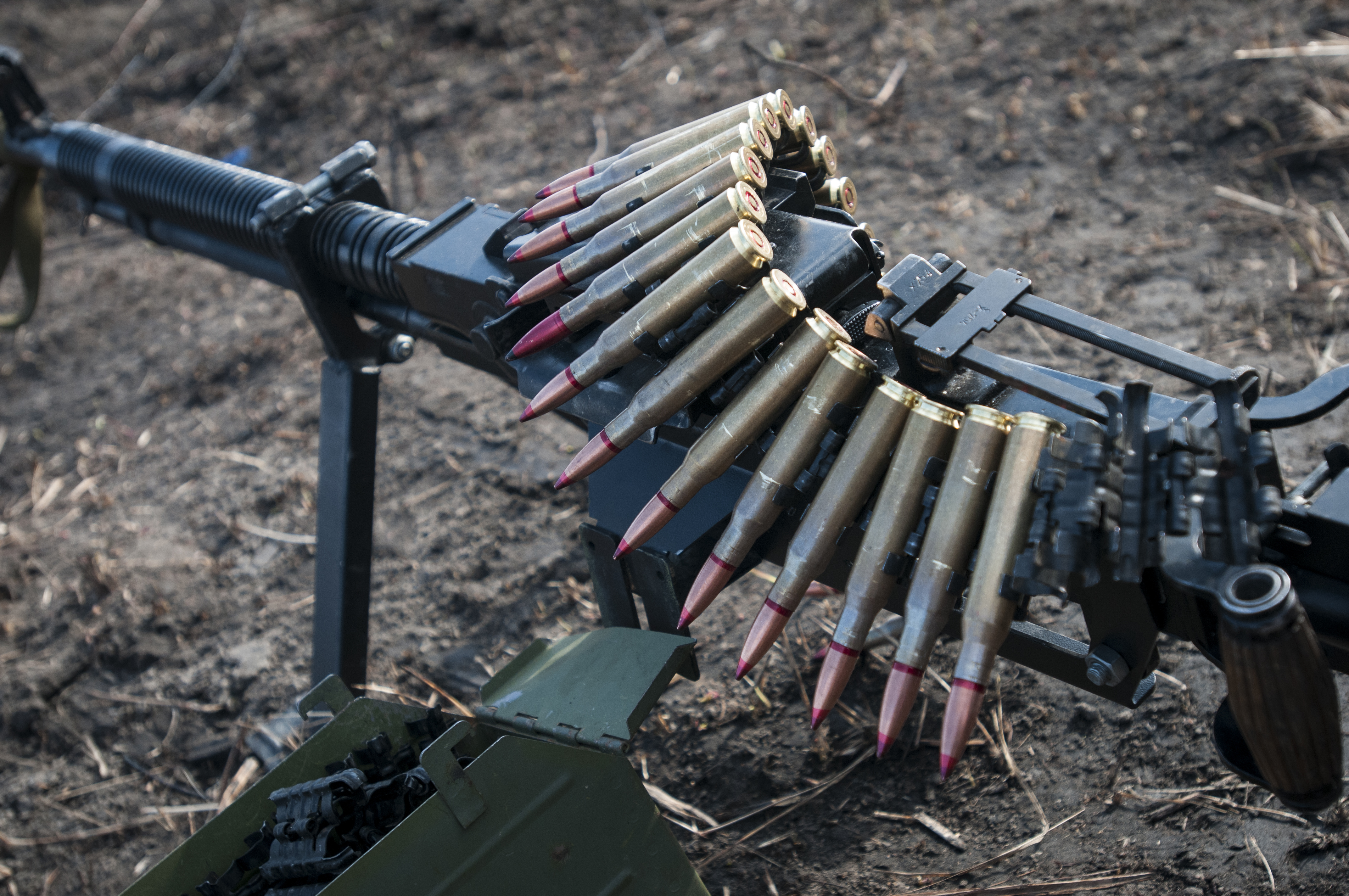 A modified DShK heavy machine gun is placed and readied to be used during a live-fire training exercise at the Yavoriv Combat Training Center on the International Peacekeeping and Security Center, near Yavoriv, Ukraine, on March 16. The live-fire exercise is part of a block of instruction taught by Ukrainian combat training center staff, who are mentored by members of the Joint Multinational Training Group-Ukraine. JMTG-U is a coalition made up of servicemembers from the Canada, Denmark, Lithuania, Poland, the United Kingdom, the United States and Ukraine who are dedicated to developing the combat training center and building professionalism in the Ukrainian military. (Photo by Sgt. Anthony Jones, 45th Infantry Brigade Combat Team) Unit: 45th Infantry Brigade Combat Team DVIDS Tags: Department of State; NATO; Thunderbirds; Oklahoma Army National Guard; Europe; Combined Training; Army Training; US Army Europe; Ukraine; EUCOM; military; U.S. Army; Partnership; USAREUR; Ukrainian Army; 45th Infantry Brigade Combat Team; Yavoriv; 45th; 45 IBCT; IPSC; JMTG-U; Joint Multinational Training Group